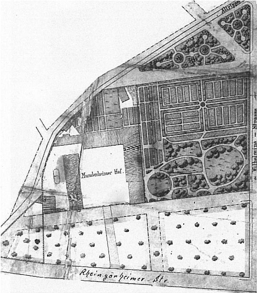 Historic map